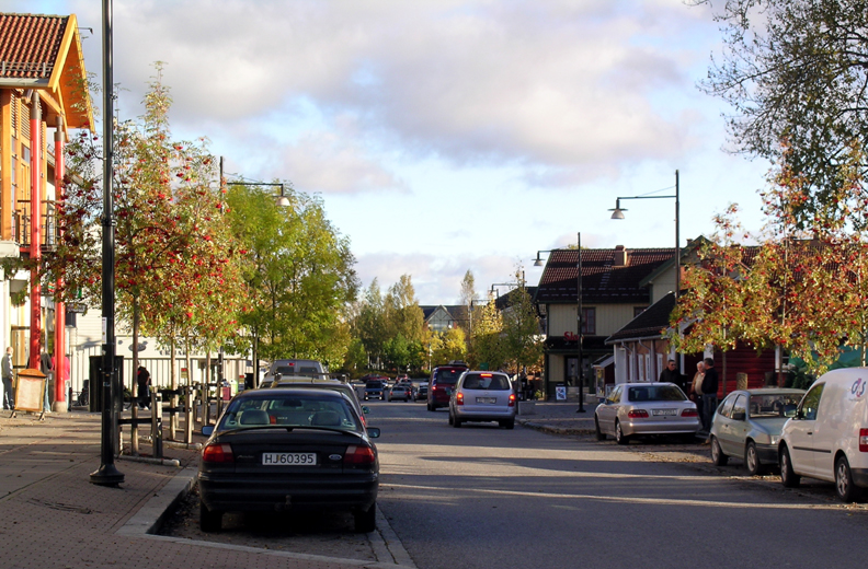 Storgata, Jessheim, Ullensaker, Norway.